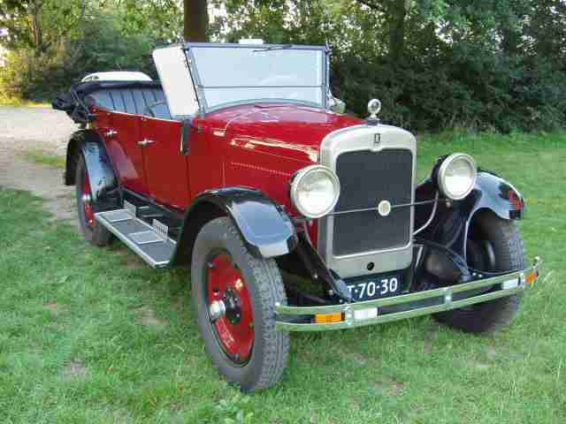 Rollin Touring 1924, picture made in 2015 in The Netherlands